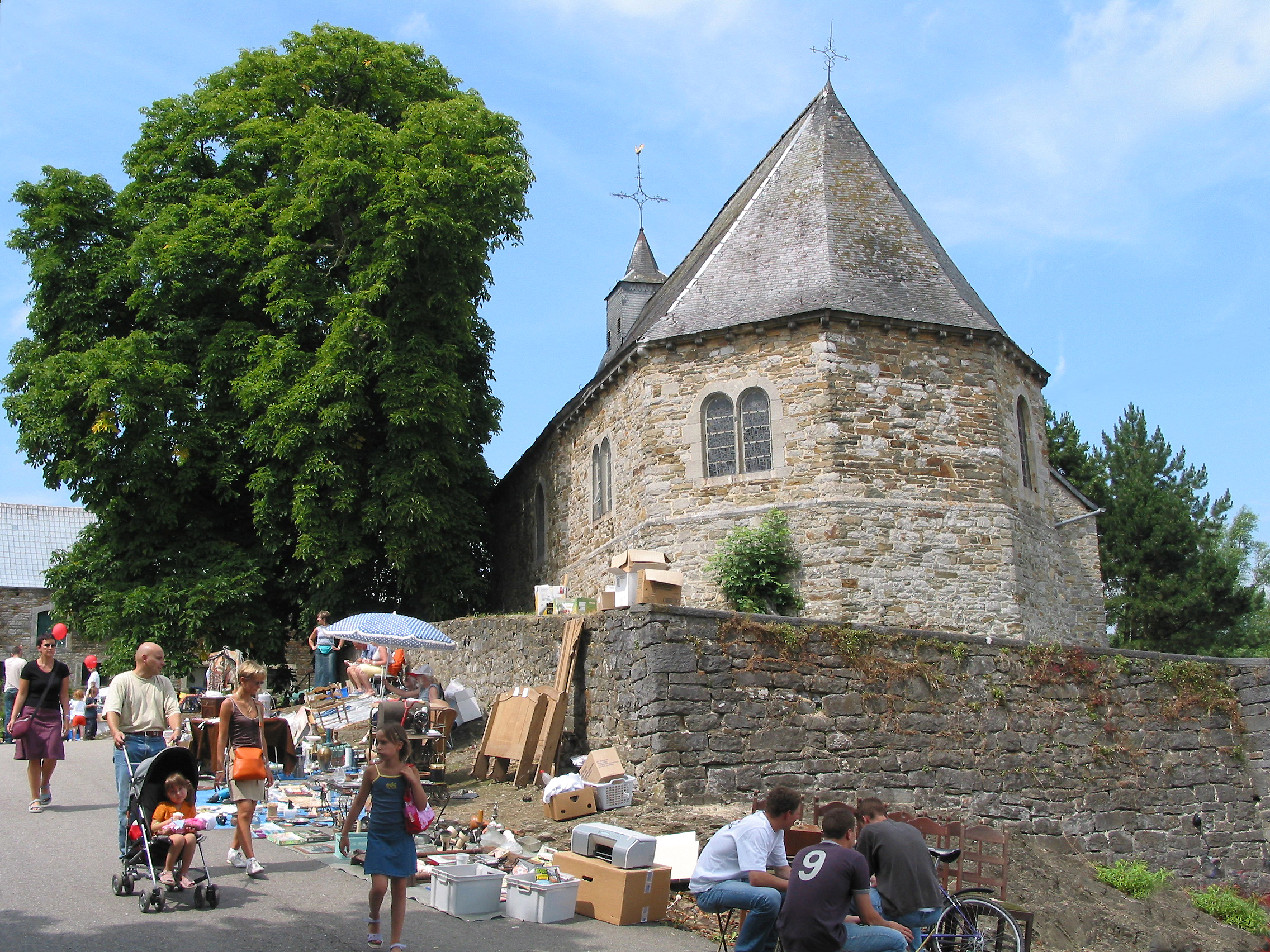 Hamois (Belgique), the St Agathe chapel of Hubinne (XIII - XVIIth centuries).